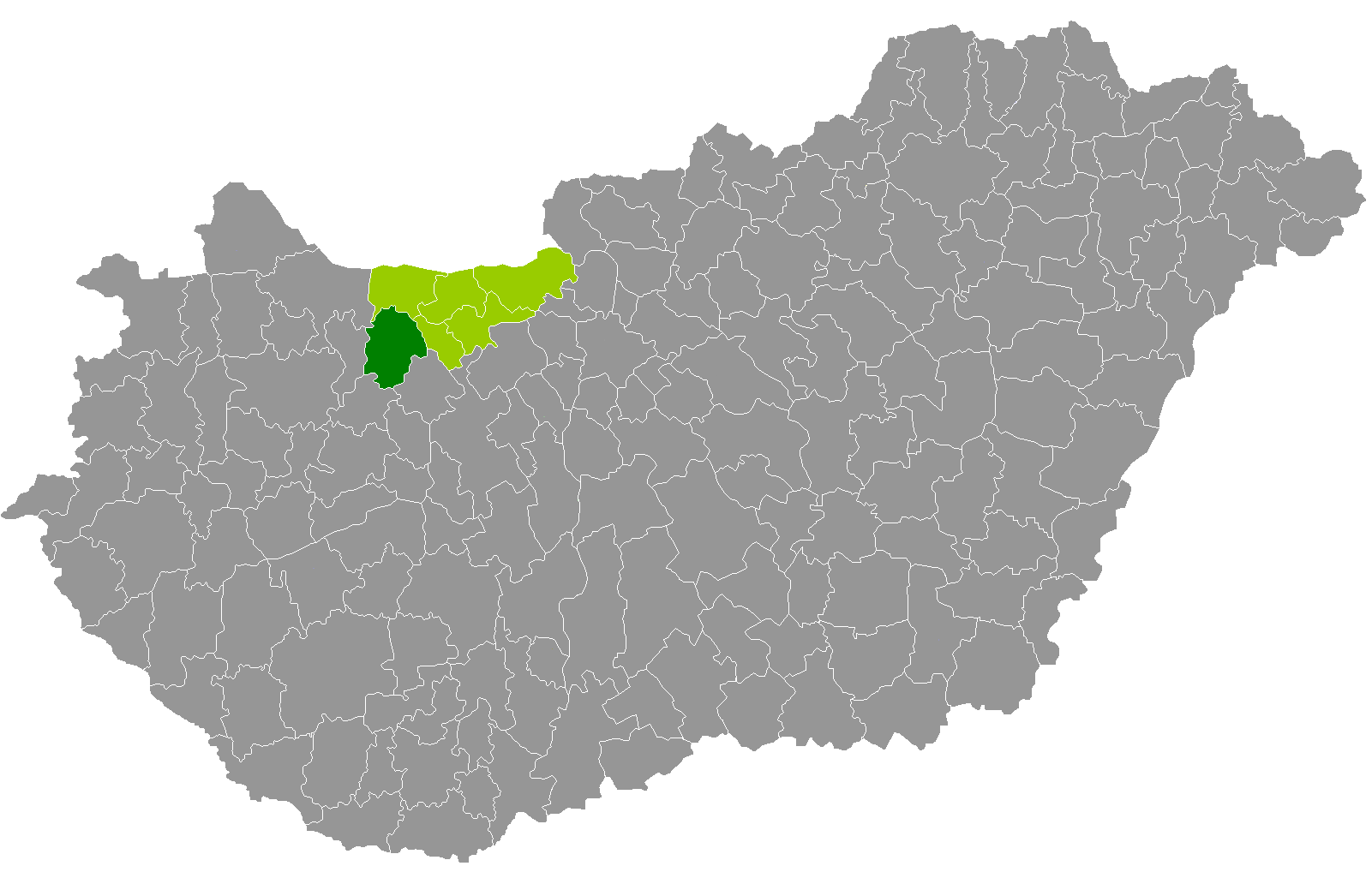 Location of Kisbér District, Komárom-Esztergom, Hungary